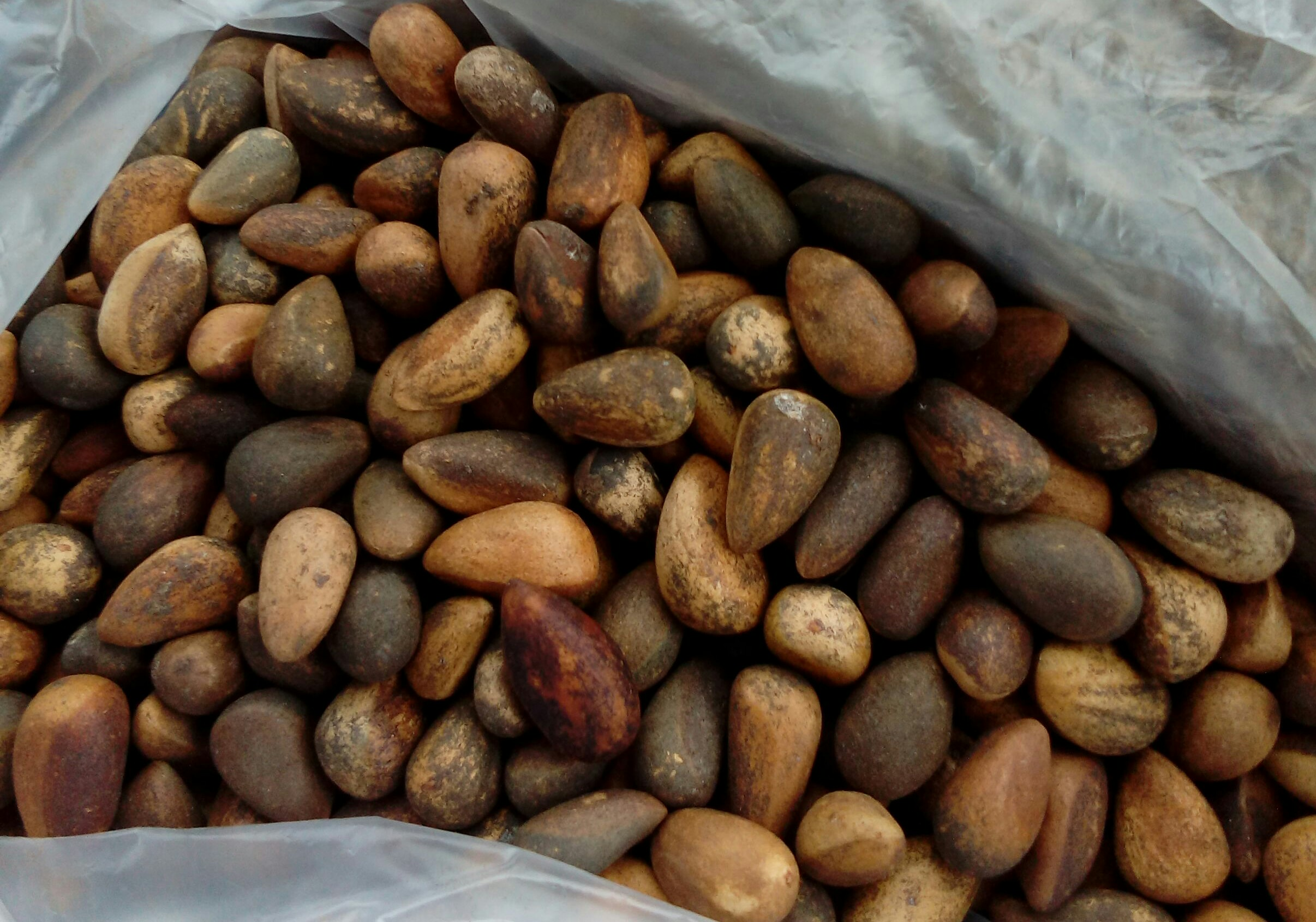 Piñón Hidalguense